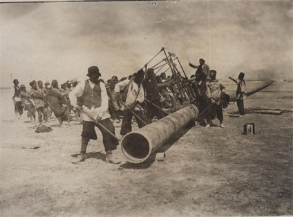 Qajar dynasty's time old industery Anglo-Persian Oil Company workers